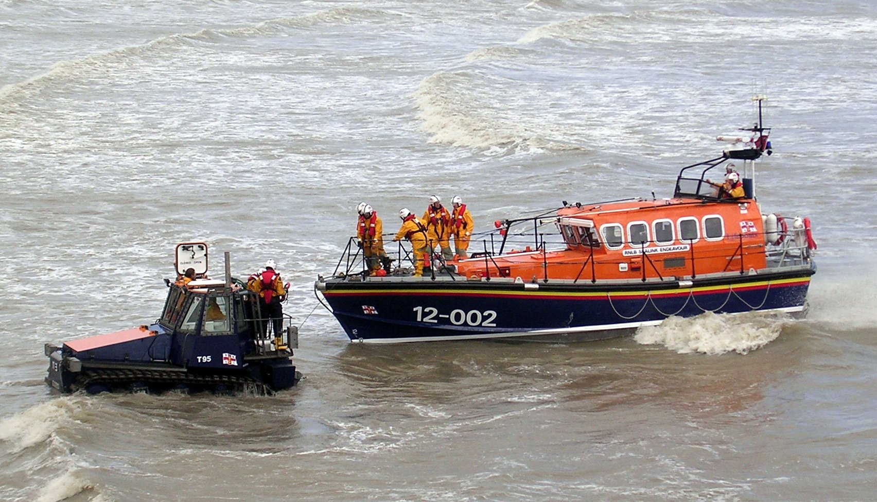 Hastings lifeboat meeting tractor at sea for recovery to beach